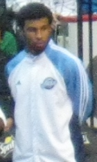 Military guys competing for something